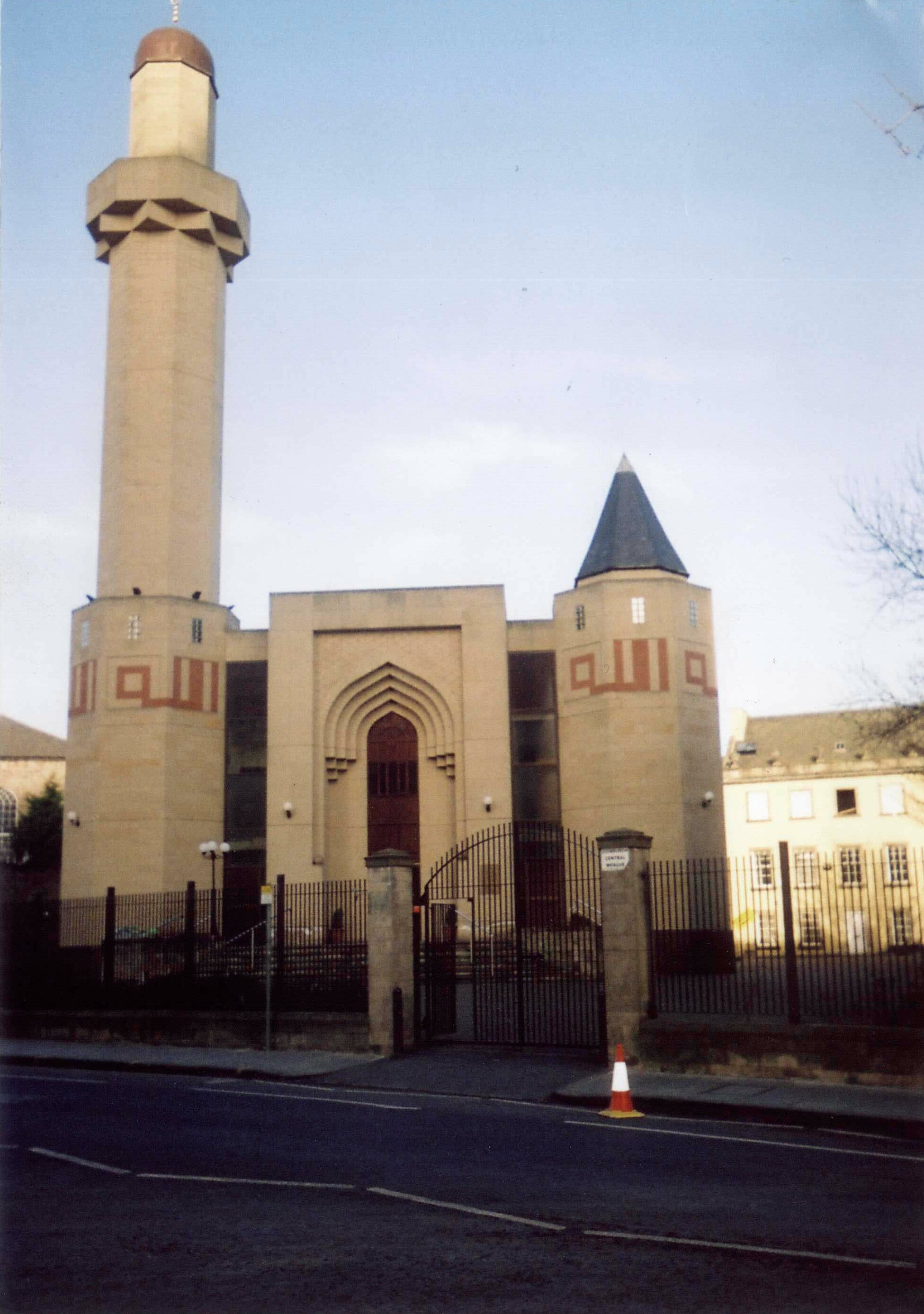 Edinburgh Central Mosque This is Edinburgh Central Mosque, on Potterrow, near the University. It is one of the largest in Scotland, apart from the main One in Glasgow, and combines elements of traditional Islamic architecture, with elements of the Scottish baronial style.